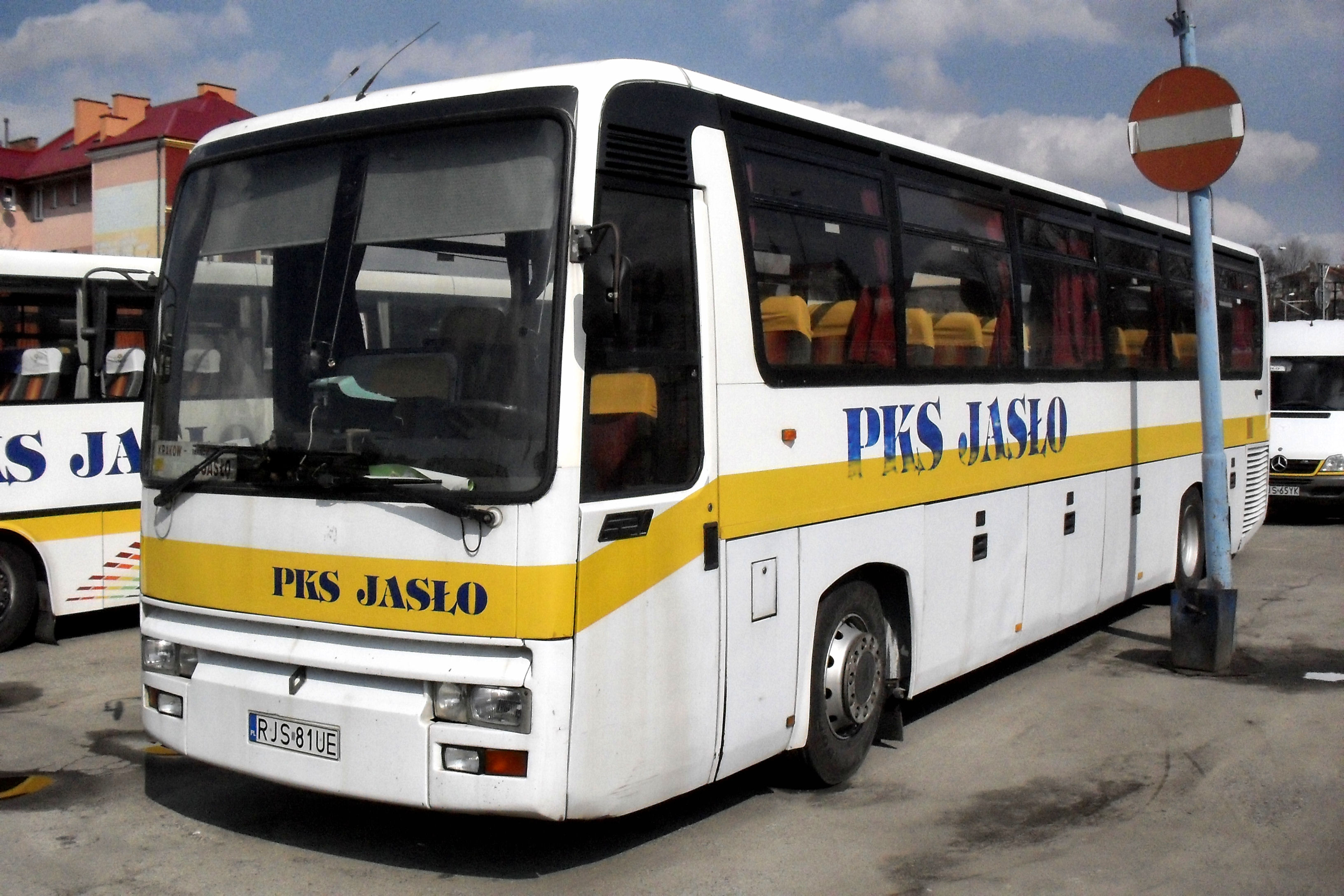 Renault FR1 which belongs to PKS Jasło.